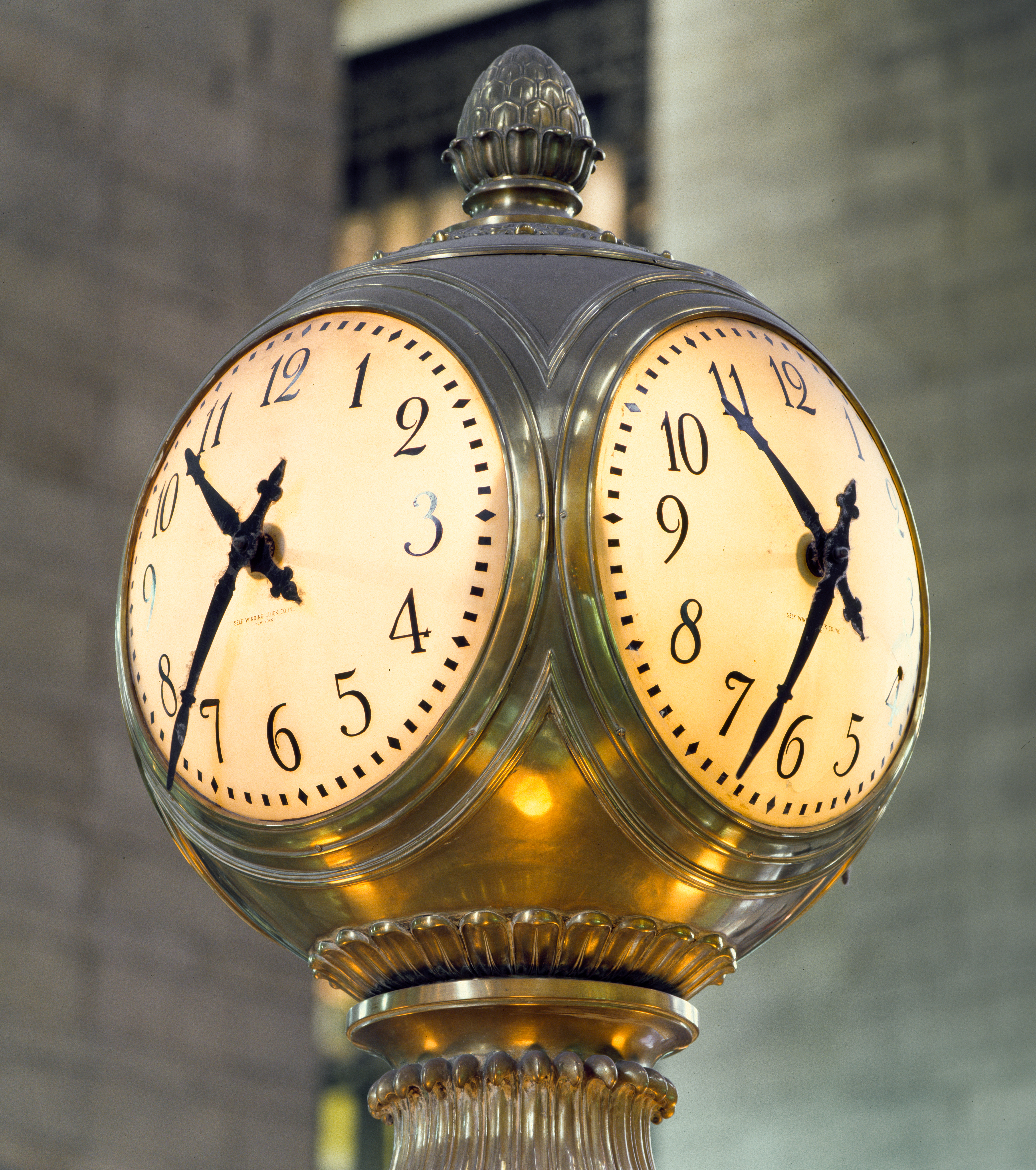 Cropped, rotated, white-balanced version of File:Concourse clock at Grand Central Station, New York, New York LCCN2011634940.tif.Title: Concourse clock at Grand Central Station, New York, New York Physical description: 1 transparency : color ; 4 x 5 in. or smaller. Notes: Title, date, and keywords provided by the photographer.; Digital image produced by Carol M. Highsmith to represent her original film transparency; some details may differ between the film and the digital images.; Forms part of the Selects Series in the Carol M. Highsmith Archive.; Gift and purchase; Carol M. Highsmith; 2011; (DLC/PP-2011:124).; Credit line: Photographs in the Carol M. Highsmith Archive, Library of Congress, Prints and Photographs Division.